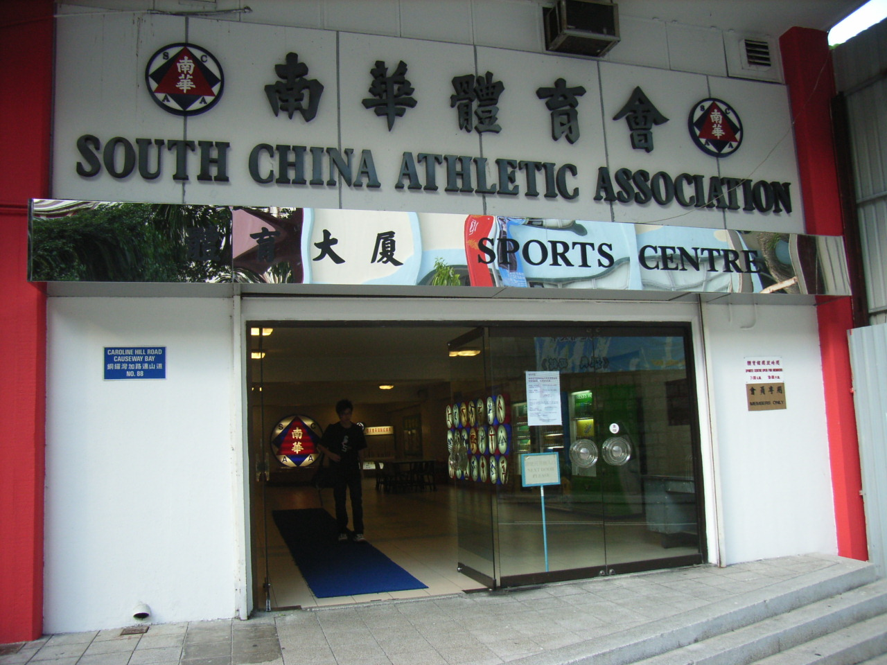 加路連山道 (Caroline Hill Road) 是香港島銅鑼灣南部，香港大球場以北的一條馬鐵U形街道，其中有歷史尤久的南華體育會(South China Athletic Association)，還有77號的香港孔聖堂小學(Confucius Hall Primary School)。 Author: BEVERLYSHEN